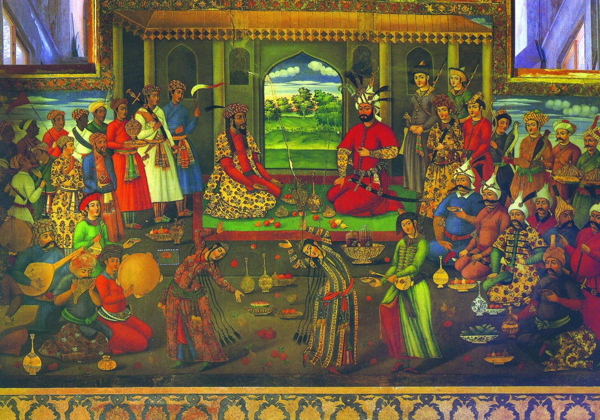 Fresco in Chehel Sotoun (40 columns) Palace, Esfahan, Iran.